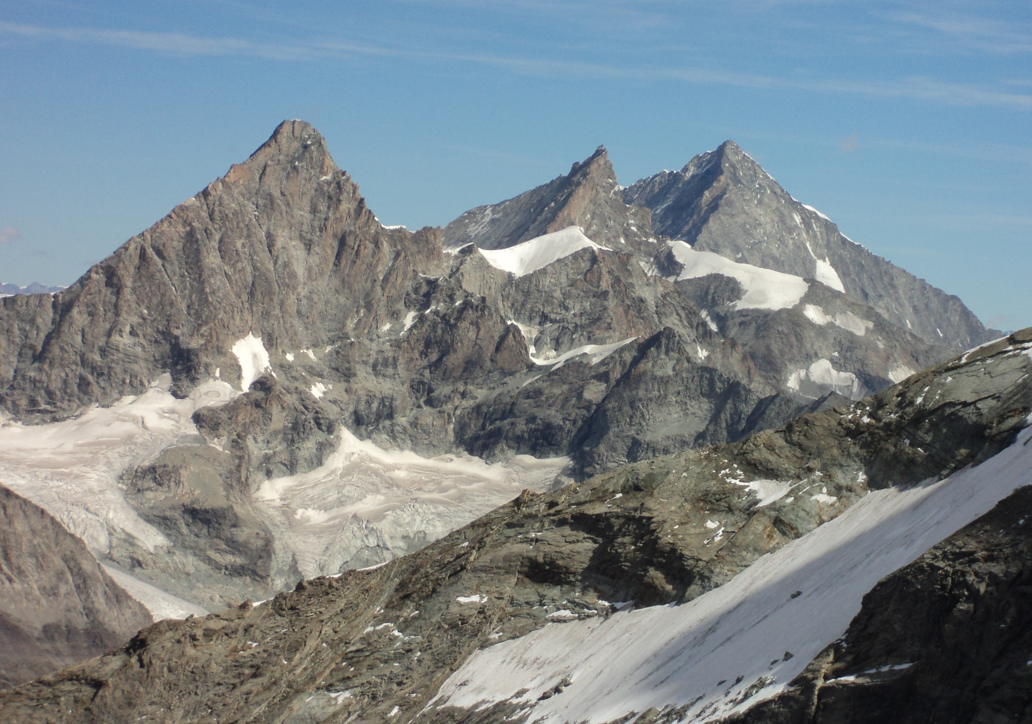 Obergabelhorn, Zinalrothorn and Weisshorn from sud